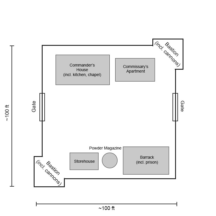 A diagram of Fort Carlos II at Arkansas Post, Arkansas. Drawn using details from